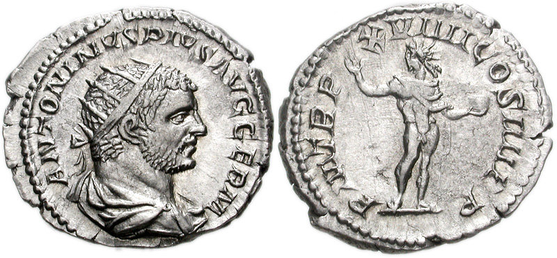 Caracalla. AD 198-217. AR Antoninianus (23mm, 4.95 g, 7h). Rome mint. Struck AD 216. ANTONINVS PIVS AVG GERM Radiate and draped bust right P M TR P XVIII COS IIII P P Sol standing facing, head left, holding globe and raising hand. RIC IV 281a; RSC 358 Cohen 358. Choice EF.